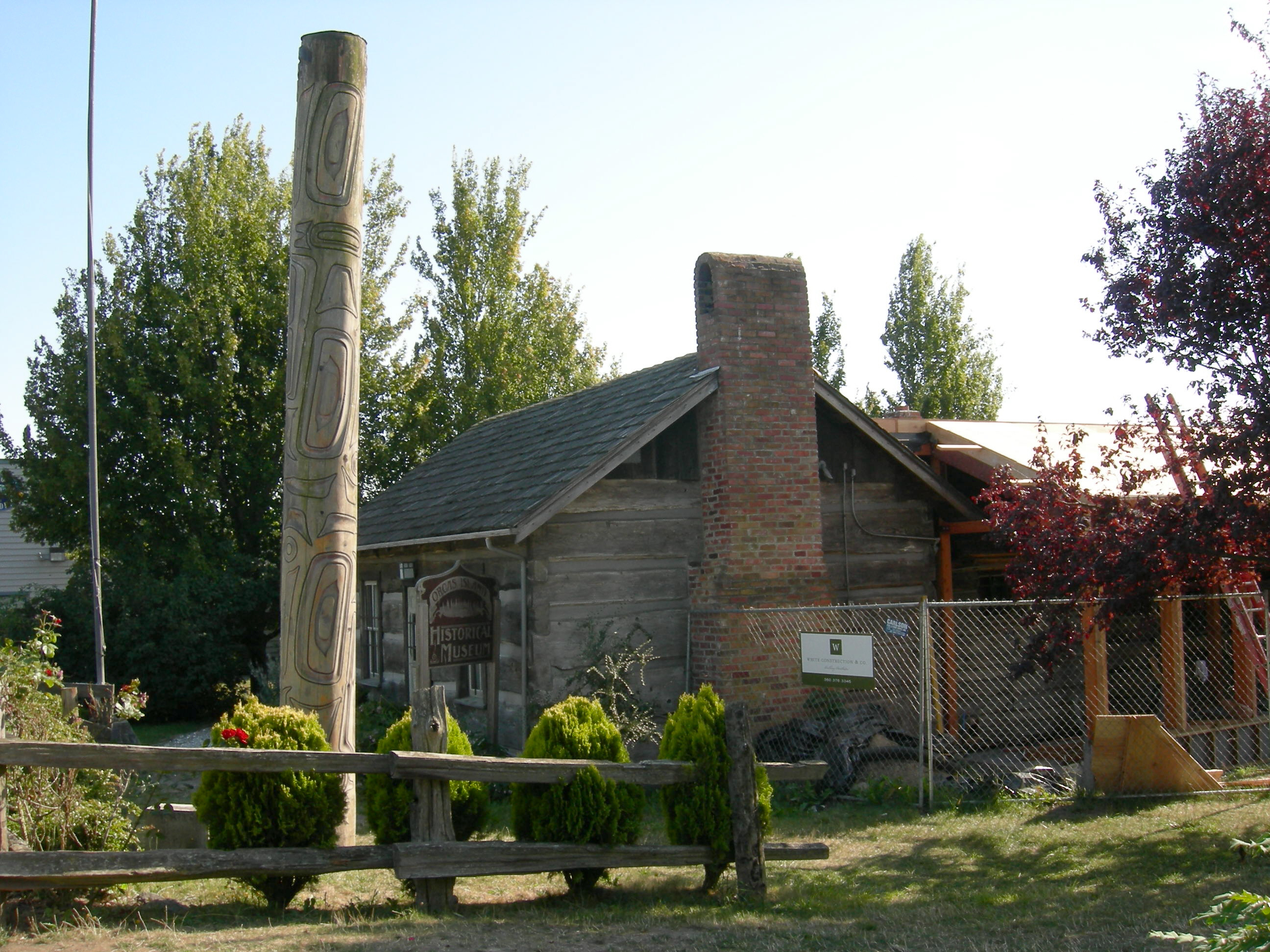 Orcas Island Historical Museum, Eastsound, Orcas Island, Washington. NOte the rather unusual relief carving on the back side of the totem pole.